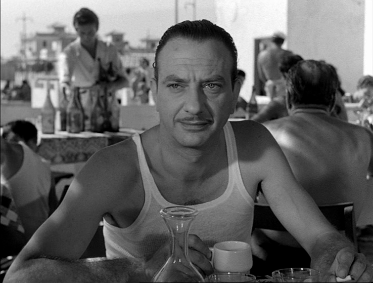 screenshot from the film Domenica d'agosto (1950)